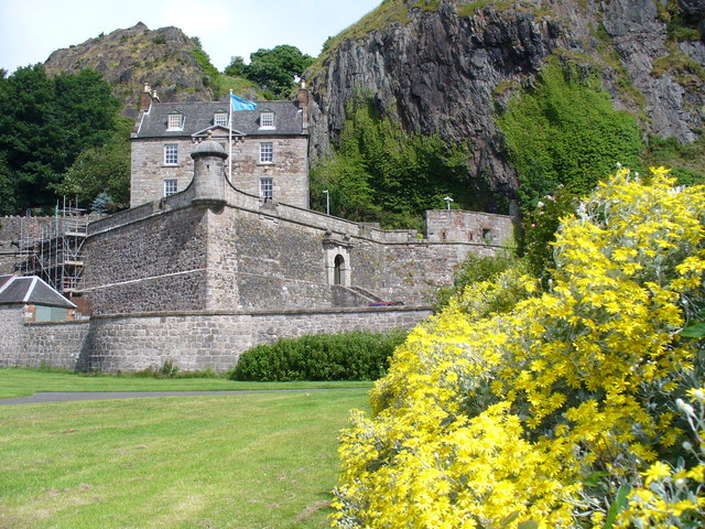 Dumbarton Castle Sited on Dumbarton Rock, here was the capital of the old British kingdom of Strathclyde.